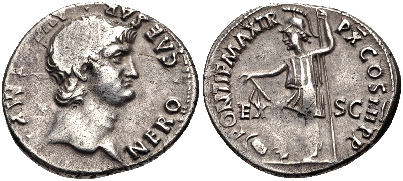 Nero. AD 54-68. AR Denarius (18mm, 3.61 g, 6h). Rome mint. Struck AD 63-64. Bare head right / Virtus standing left with foot on pile of arms, holding parazonium and spear. RIC I 41; RSC 233.